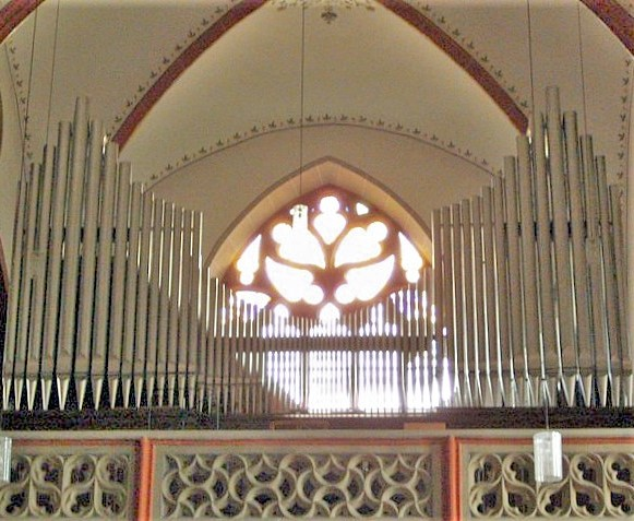 Hugo-Mayer-Organ of th St. Willibrord's church in Limbach (Schmelz), Saarland, Germany